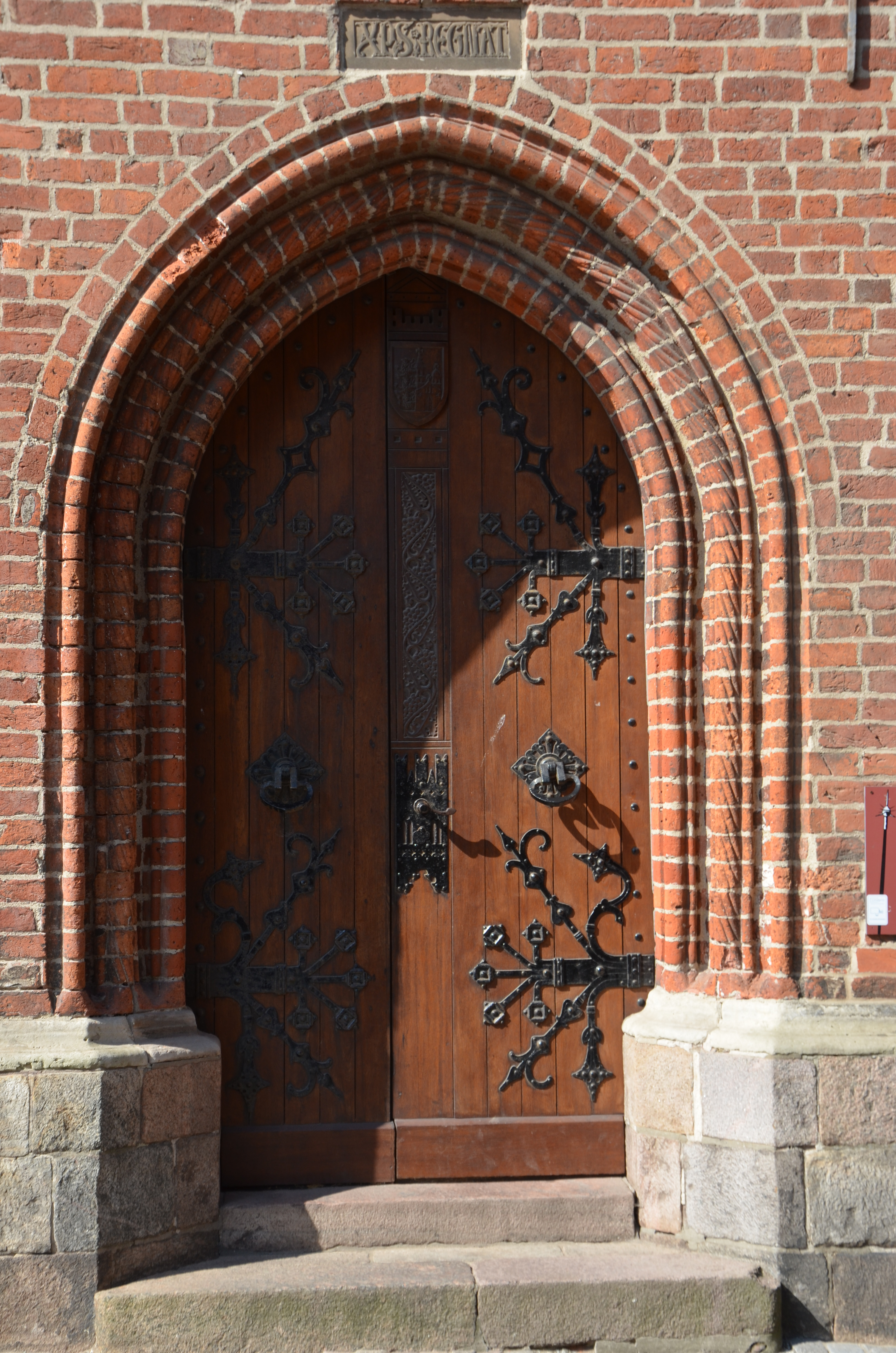 Västra porten till Det Gamle Rådhus i Ribe